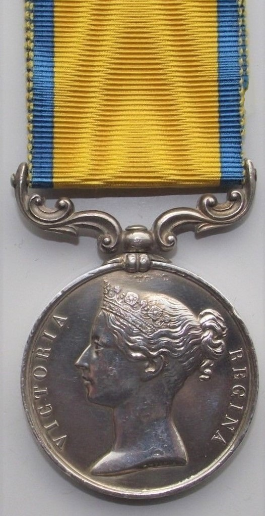 British campaign medal for Baltic Sea operations by Royal Navy during Crimean War.